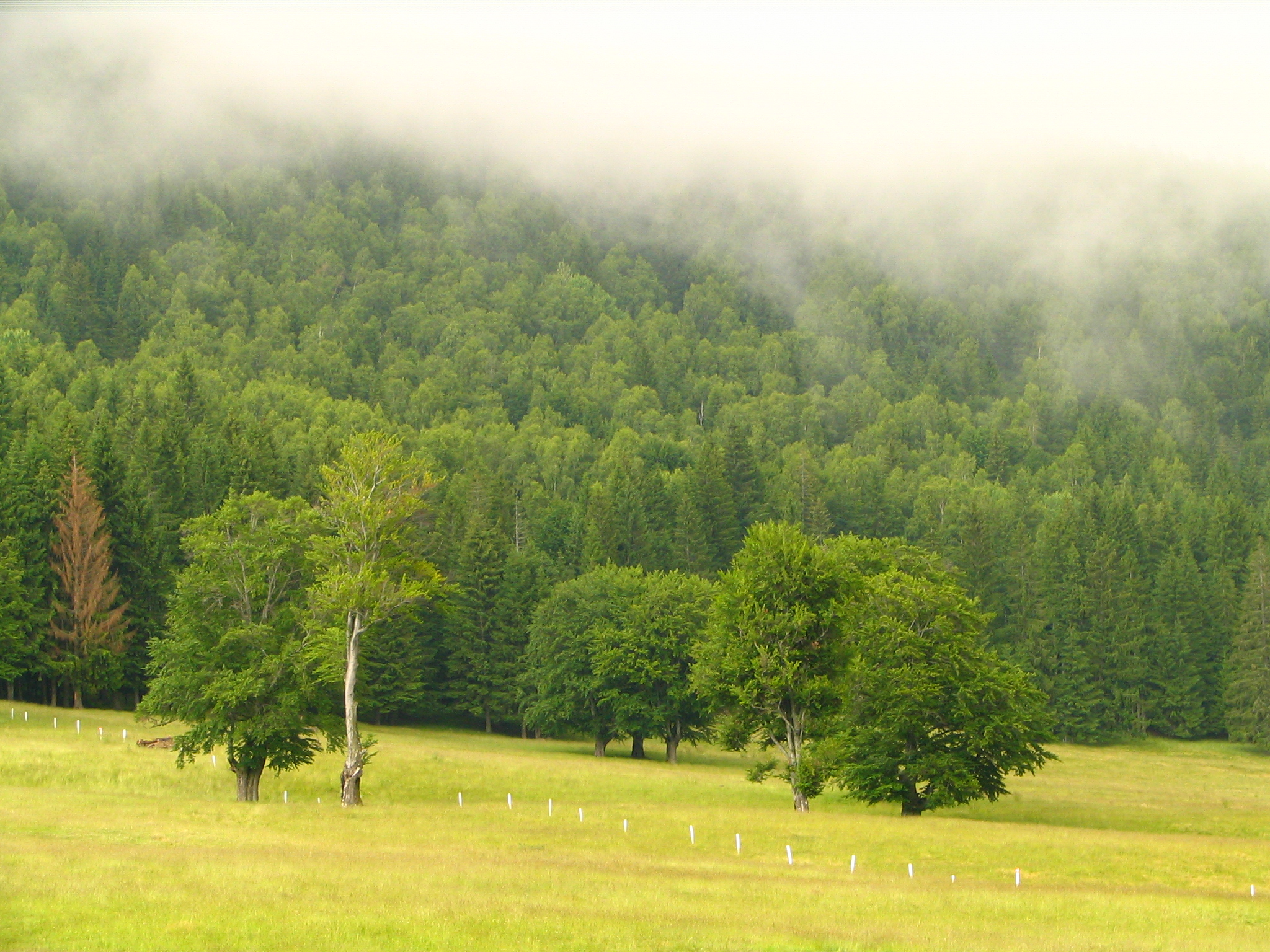 field and forest around Tuşnad, Harghita County, Romania